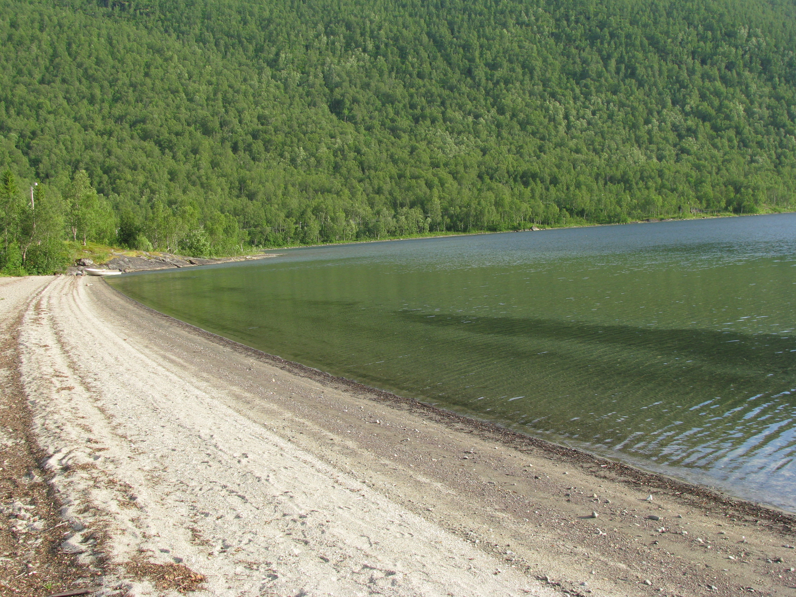 Strandvatnet lake close to Bogen in Evenes, Nordland, Norway.